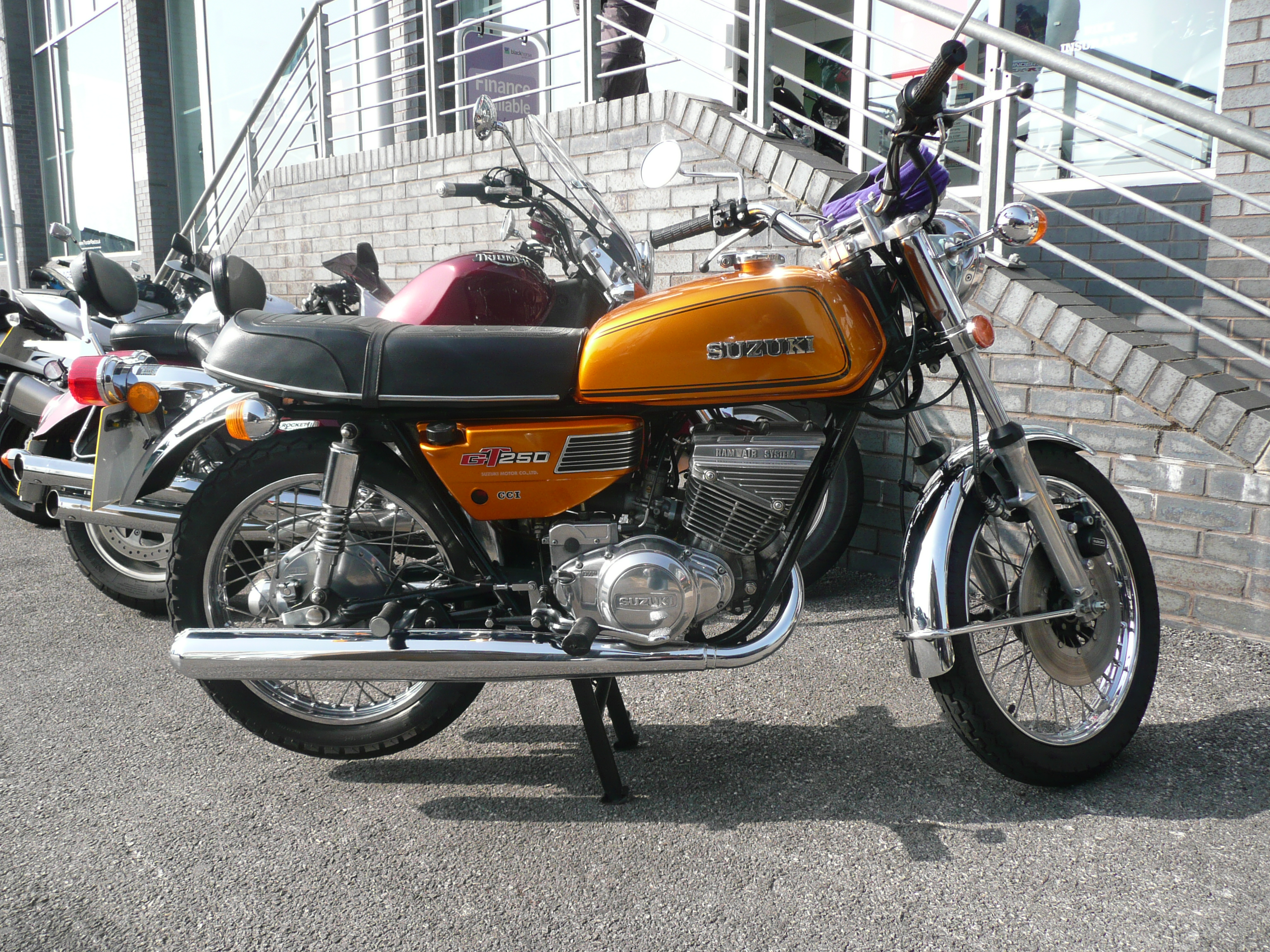 Suzuki GT 250 motorcycle